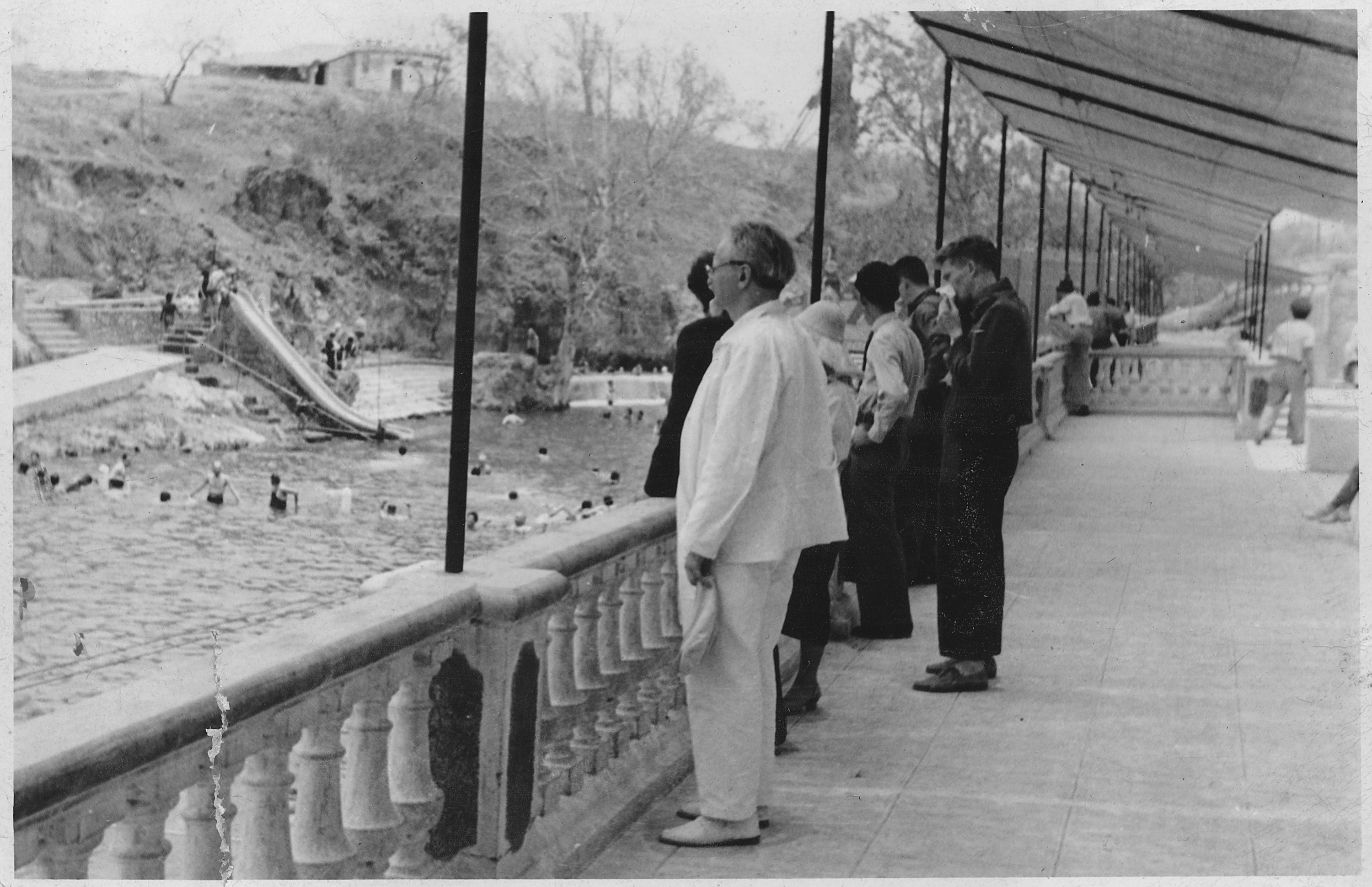 Scope and content: Trotsky is standing on a balcony overlooking swimmers in a river at Hot Springs, Mexico. ca. May 1938.